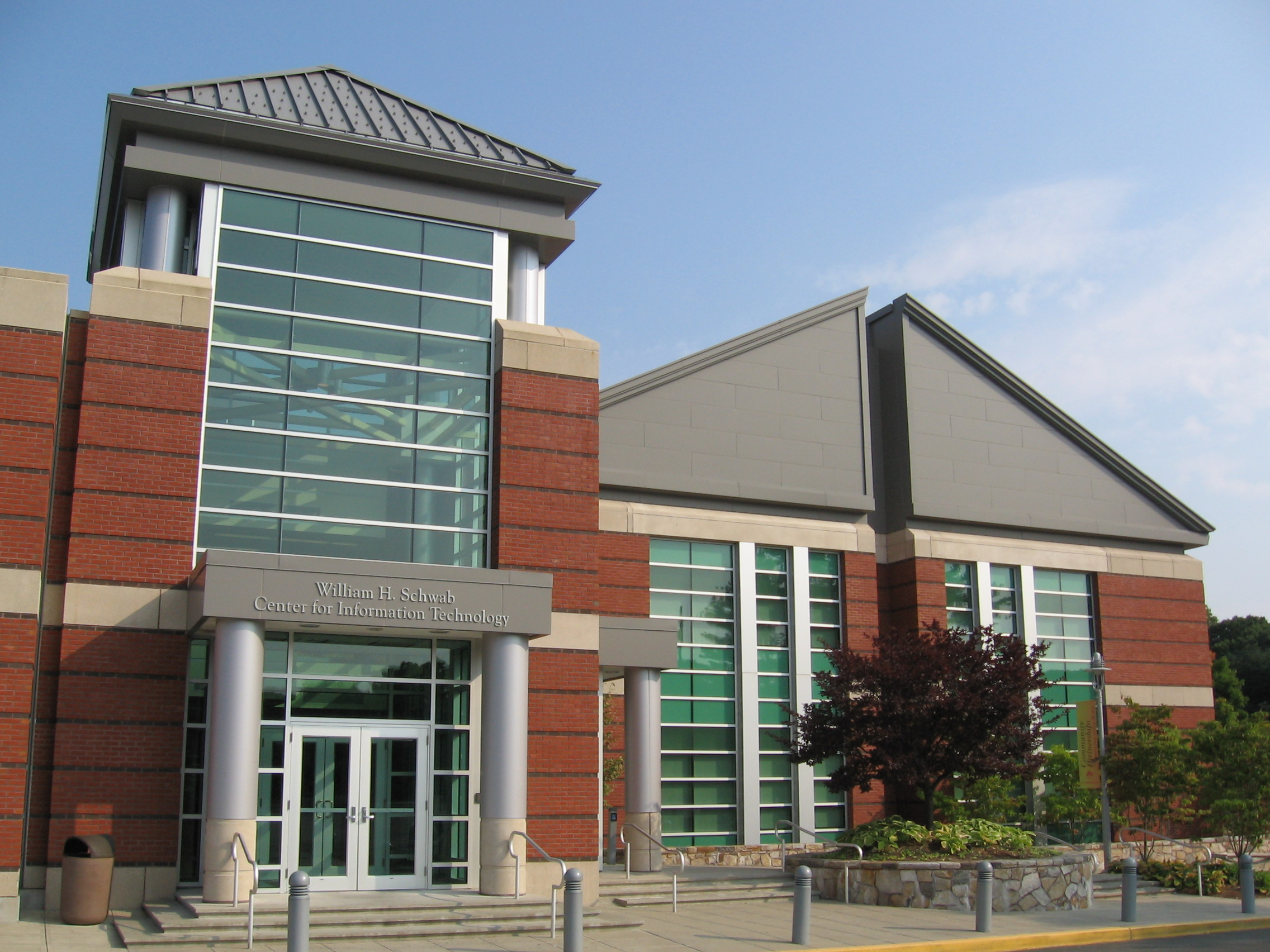 William H. Schwab Center for Information Technology entrance at the north end of the West Campus of Norwalk Community College in the West Norwalk section of Norwalk, Connecticut, view from the south side in the parking lot.